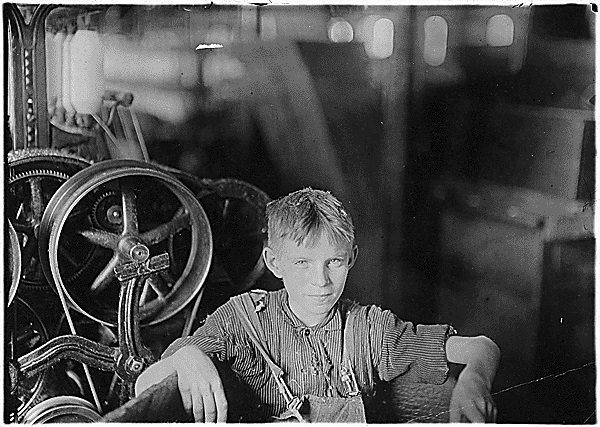 A Polish boy, Willie, who was taking his noon rest in a doffer box. Anthony, R.I, April 1909